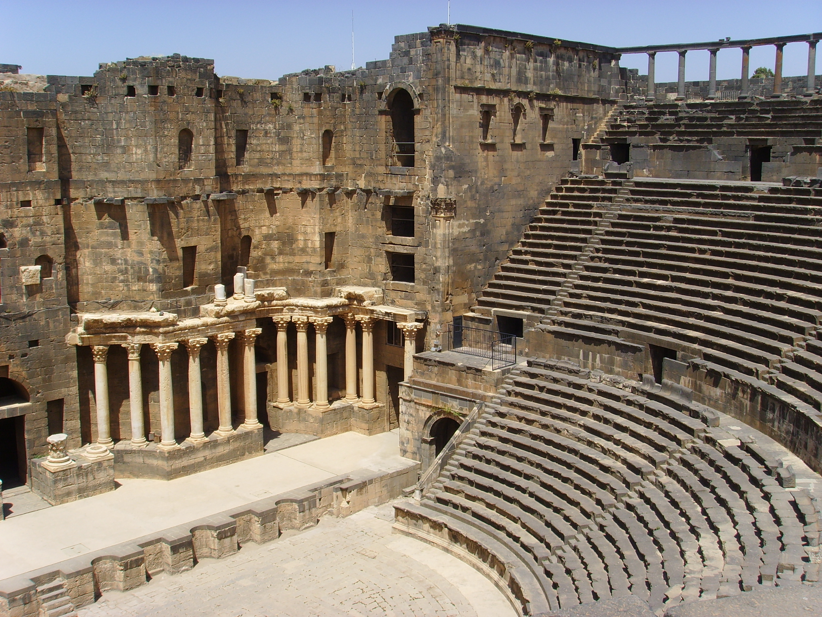 Theater, Syria, Bosra